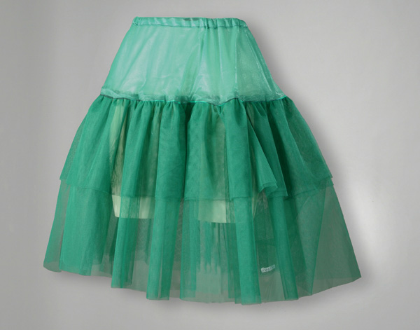 Ruffled petticoat of green nylon.